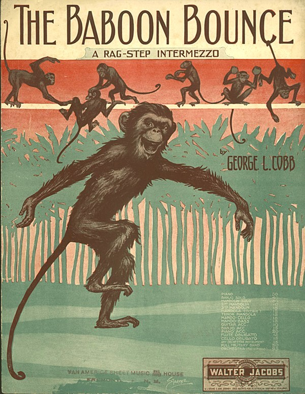 The Baboon Bounce, 1913